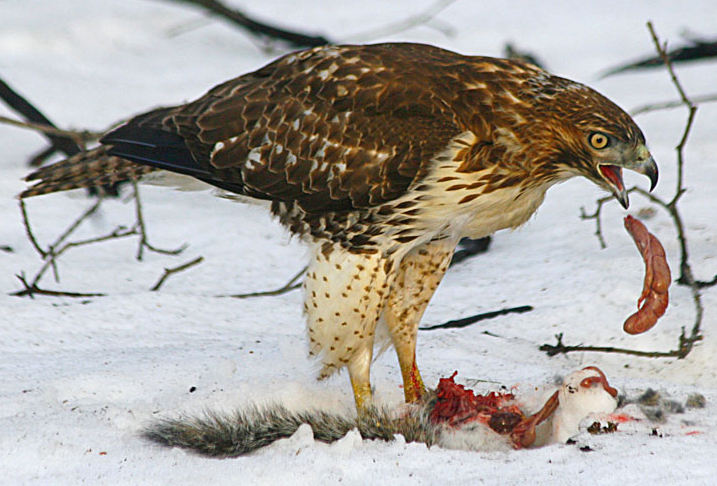 Female Red-tailed Hawk (Buteo jamaicensis) eating a squirrel. Mount Auburn Cemetery, Cambridge, Massachusetts.